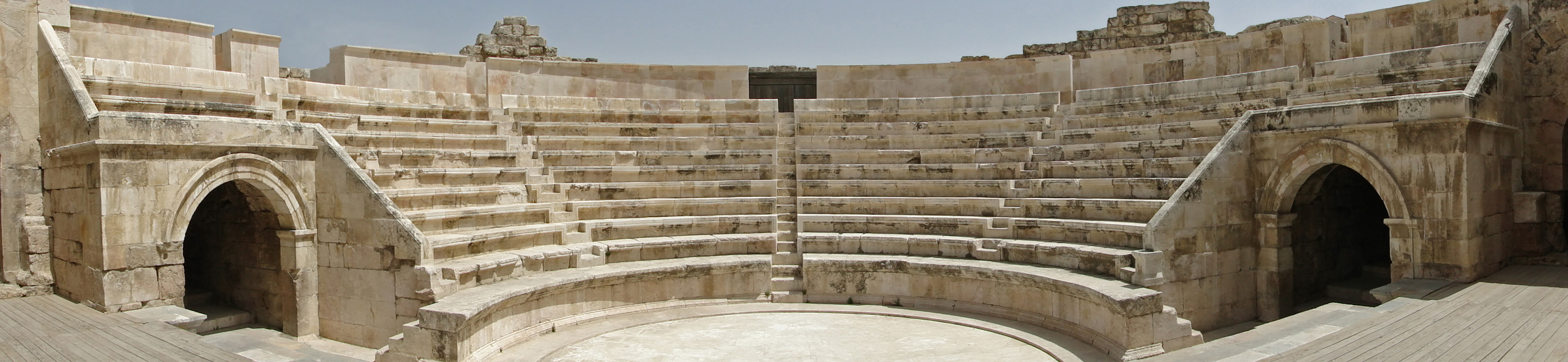 The Amman Odeon, built in the 2nd century AD, Jordan